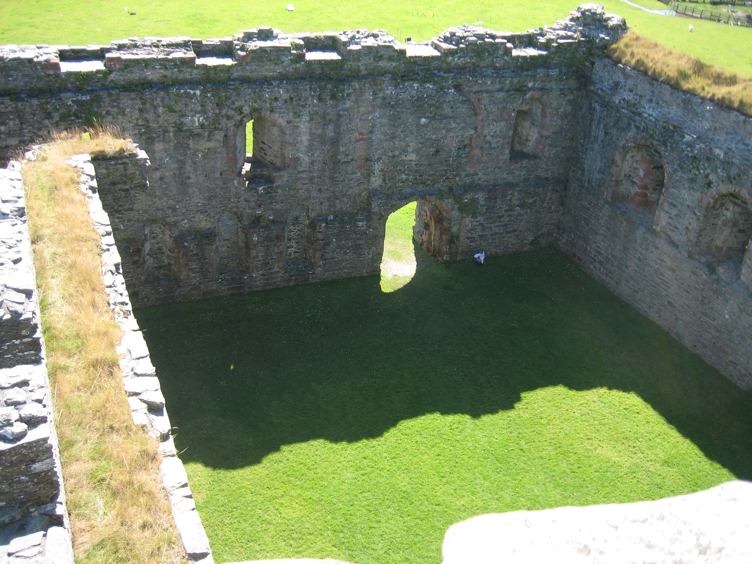 The courtyard of Skippness Castle, view from the towerhouse